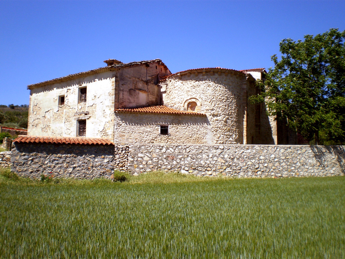 El Collado Hermitage, in Berninches, Guadalajara, spain.